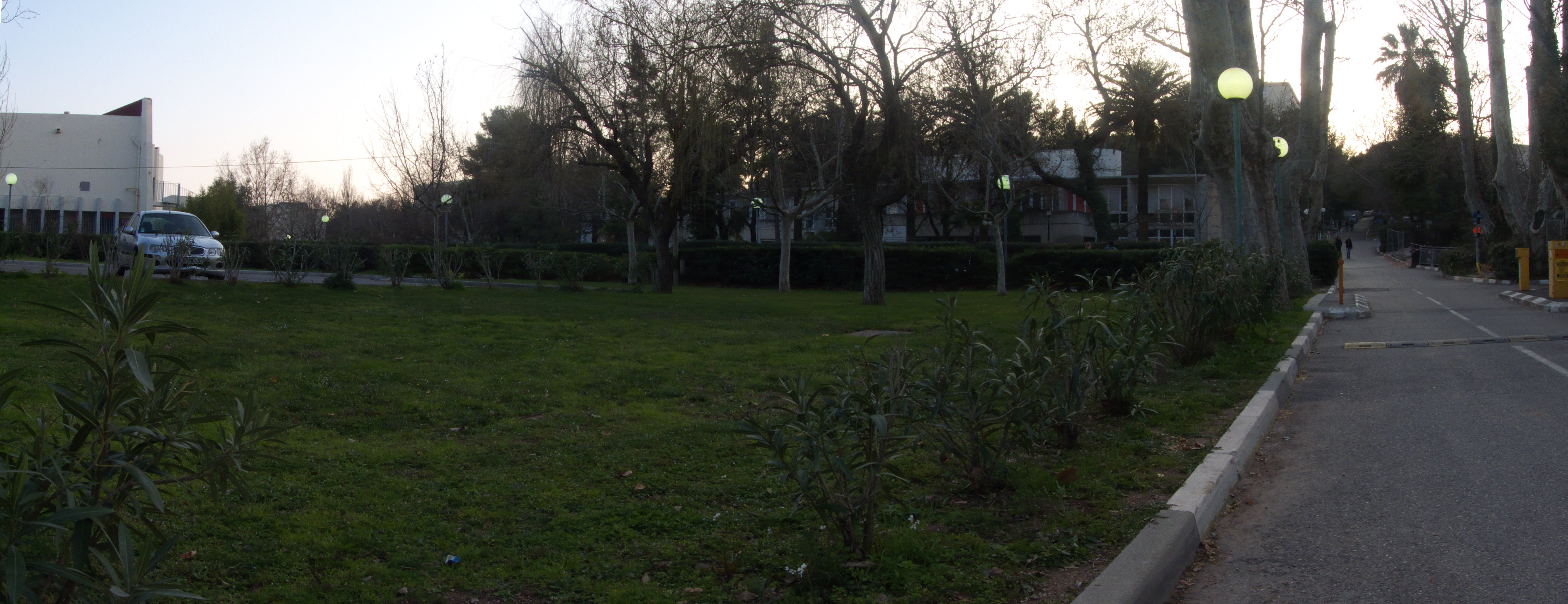 Just a few images assembled together I shot a few weeks ago but did not assembled yet...